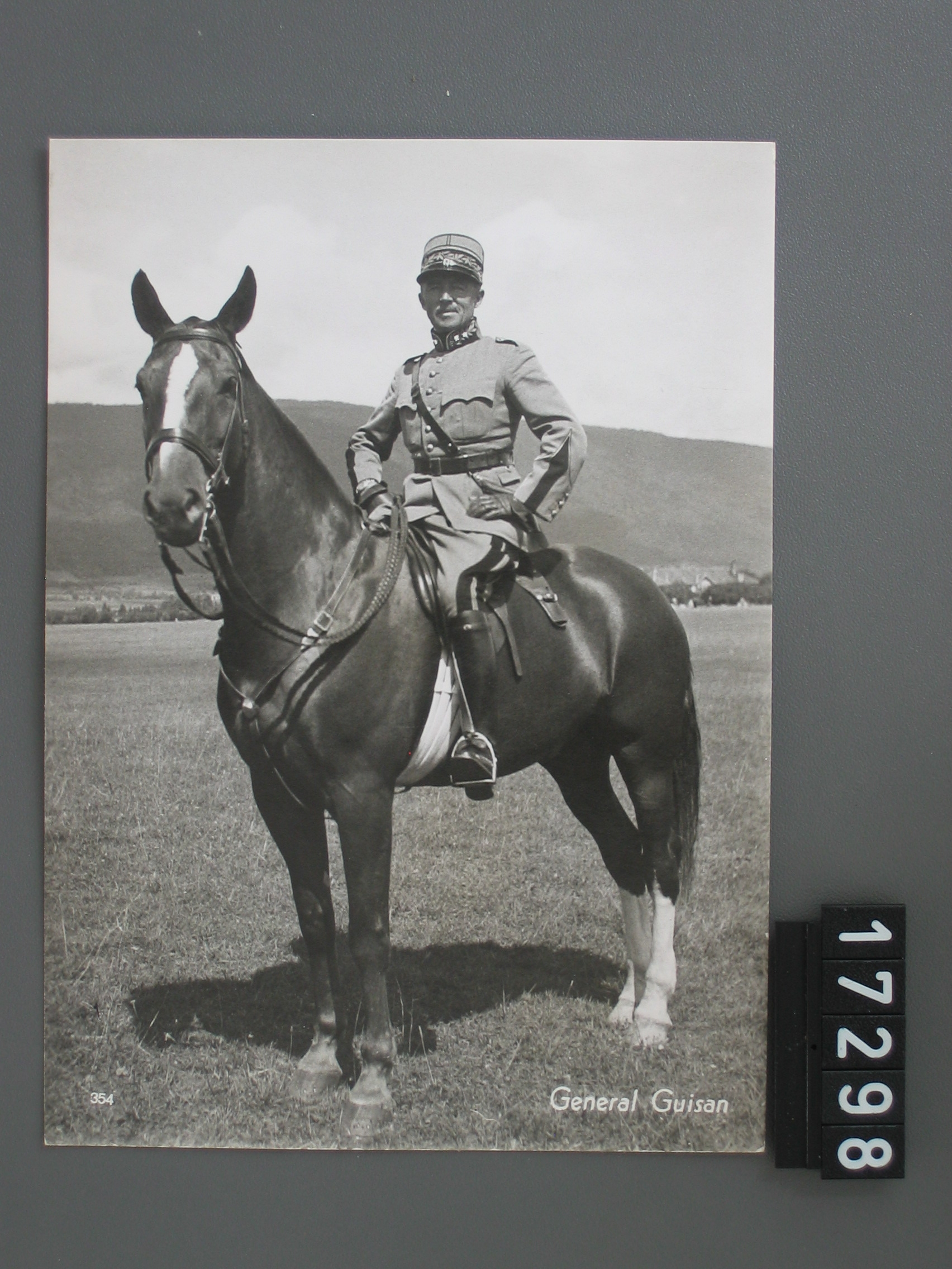 Henri Guisan, Swiss general